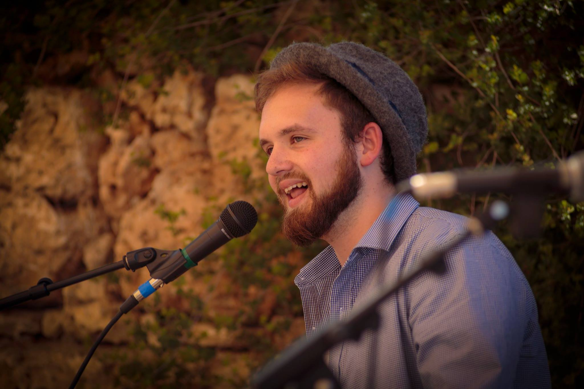 Mendy Portnoy of the Portnoy Brothers at Day to Praise 2016.